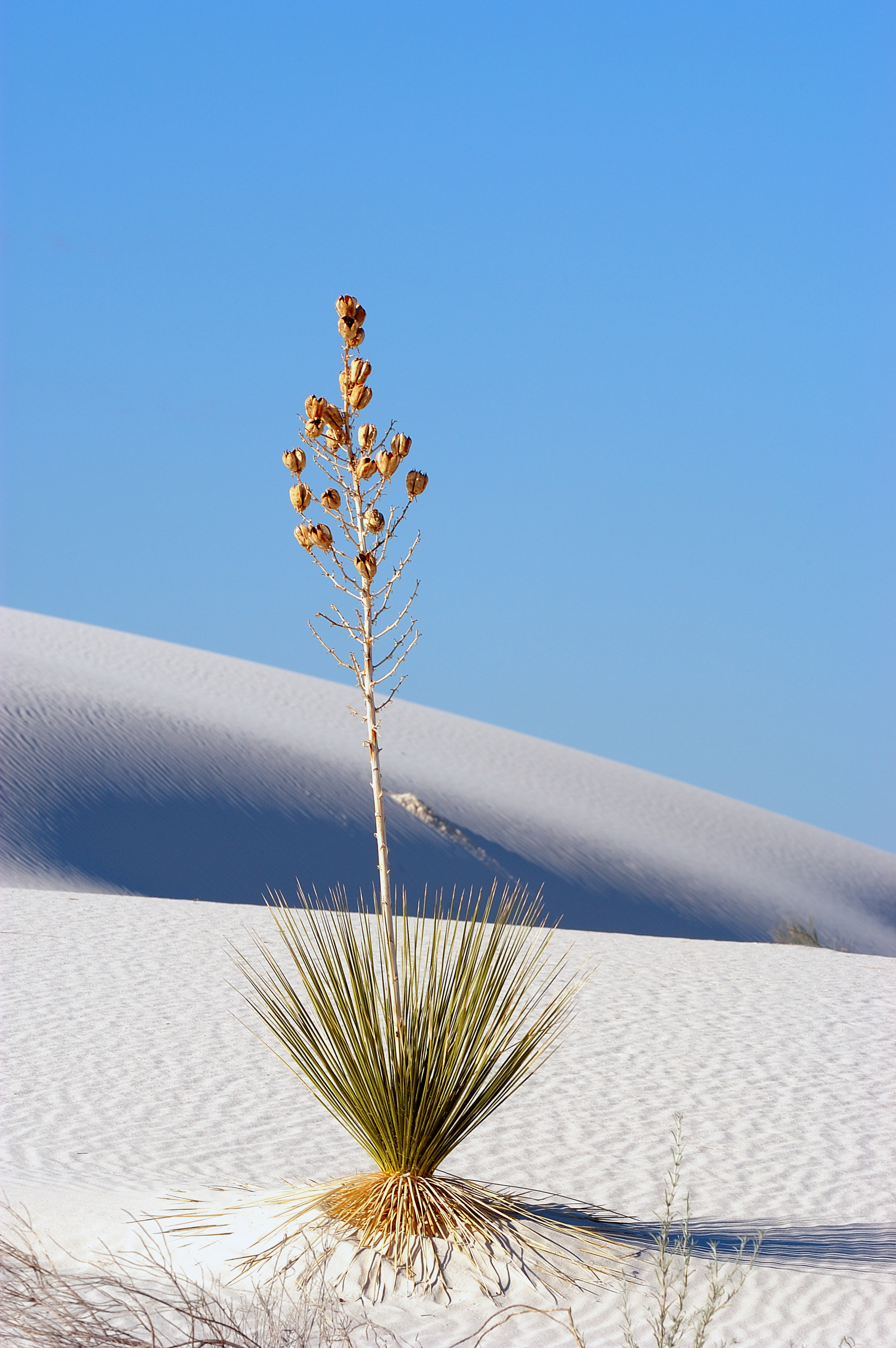 Soaptree yucca (Yucca elata) at White Sands